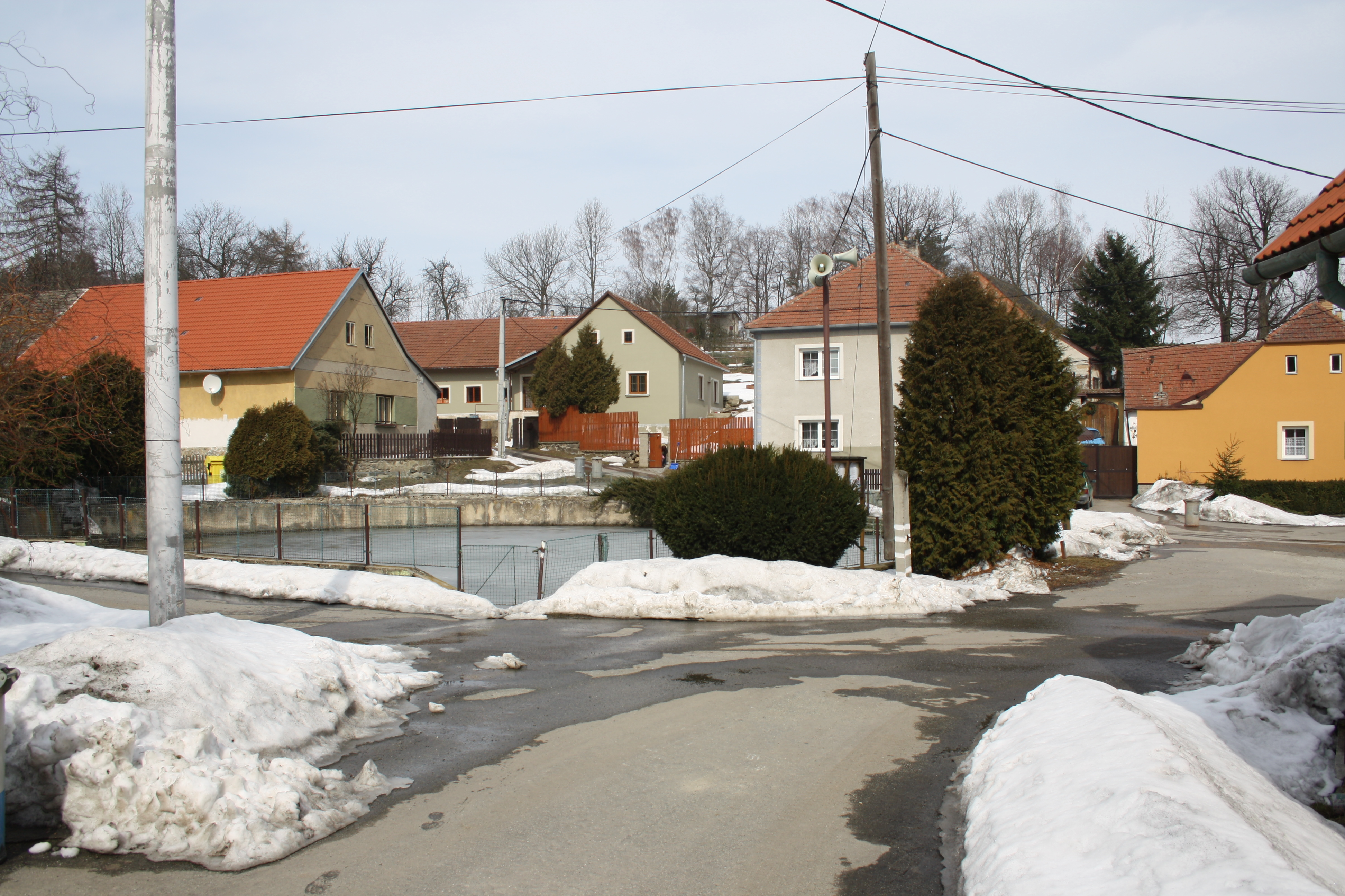 Center of Věstoňovice.